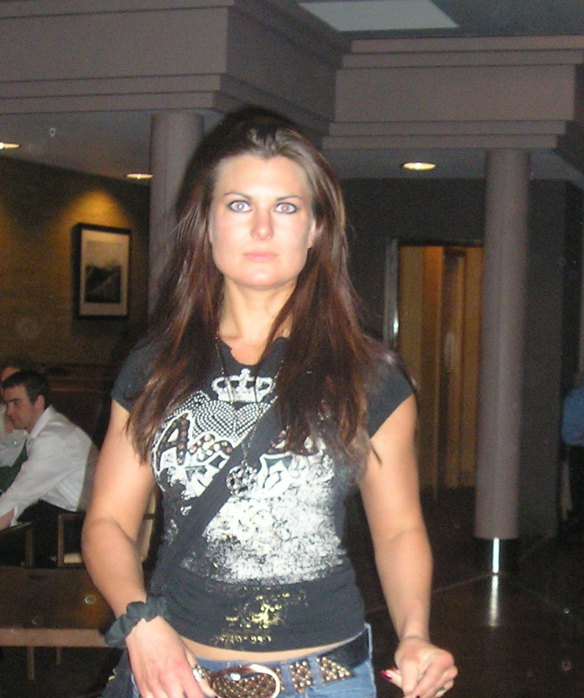 Katarina Waters in Belfast. Cropped from Adster95's Image:Katie Lea in Belfast for Raw Wrestlemania revenge tour.JPG